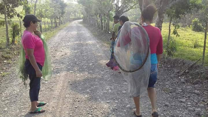 2019 Mexican women showing her matayahual traditional Nahuat Aztec fishing net in Veracruz south Mexico